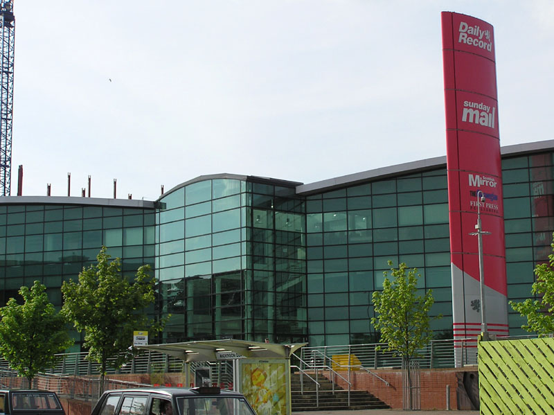 The Daily Record building at Anderston Quay, beside the River Clyde in Glasgow, Scotland Taken by Finlay McWalter on May 7th 2004.